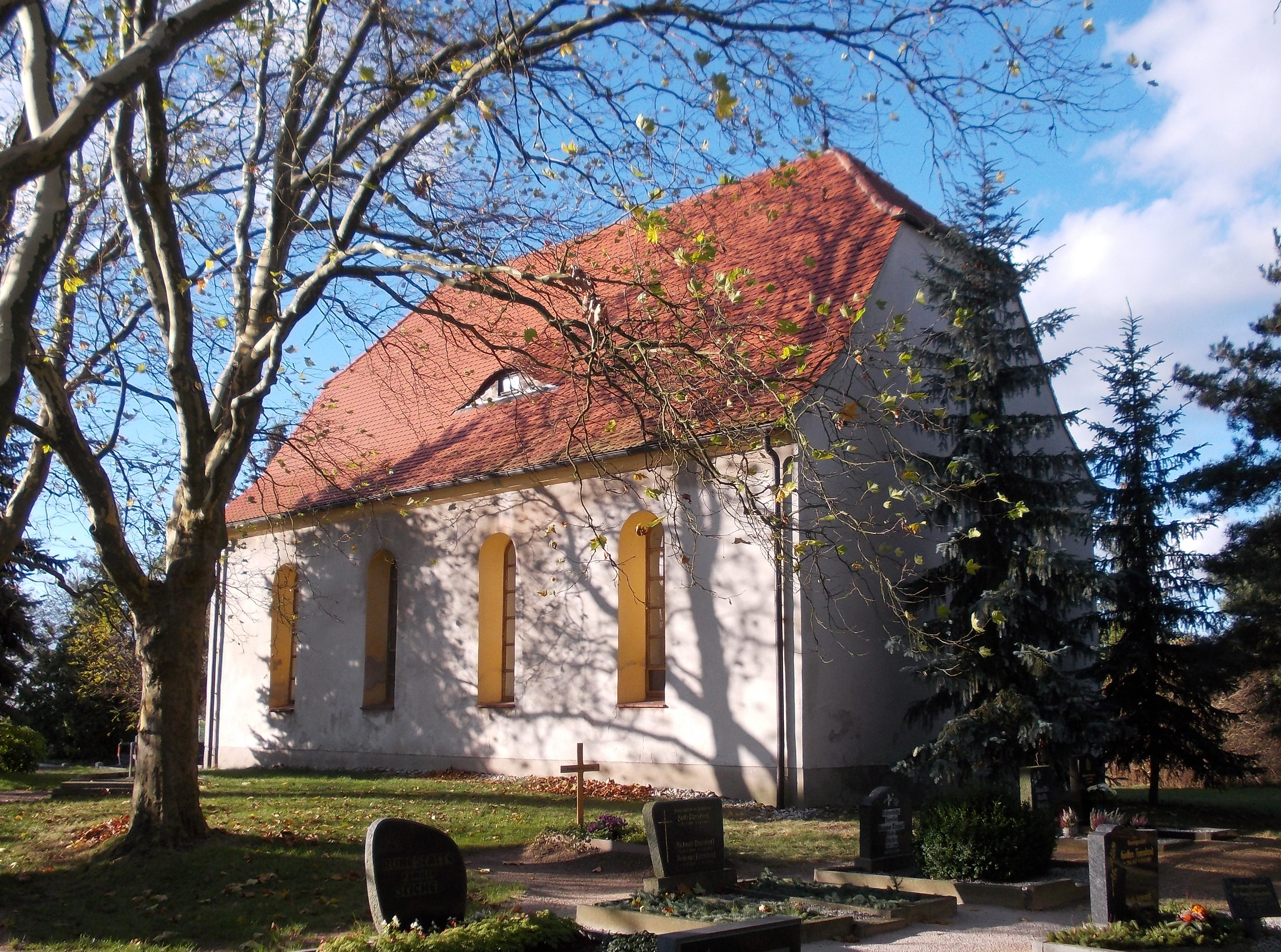 Church in Sprotta (Doberschütz, Nordsachsen district, Saxony)